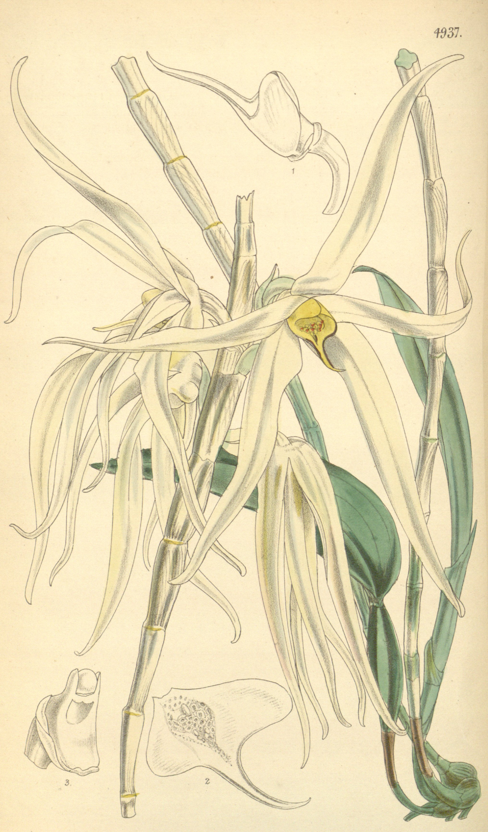 Illustration of Dendrobium amboinense